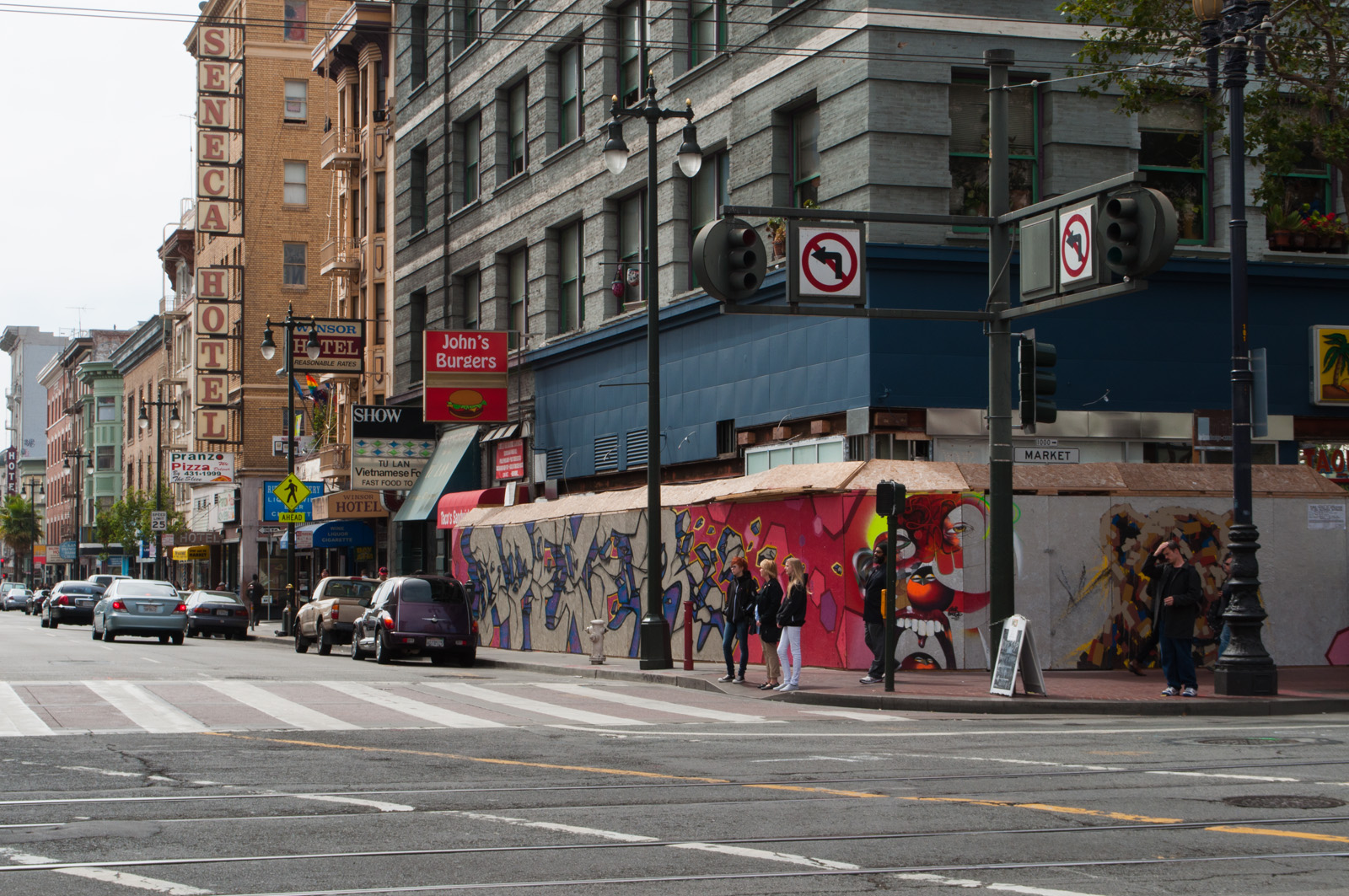 6th Street, before the gentrification of South of Market, was considered a very run-down place full of drug addicts. Today it still keeps much of that run-down feel, except that it feels authentic due to being less subject to the forces of gentrification. Love the graffiti/art on the barricade. Beyond it can be seen Tu Lan, a well-known hole-in-the-wall Vietnamese noodle eatery.